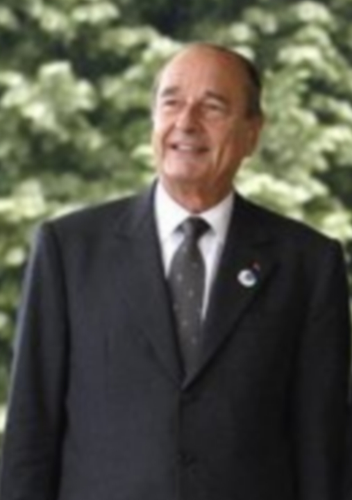 President Jacques Chirac of France at the G8 Summit in Evian, France.